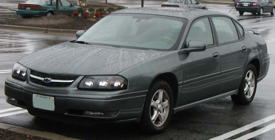 2000-2005 Chevrolet Impala photographed in USA.